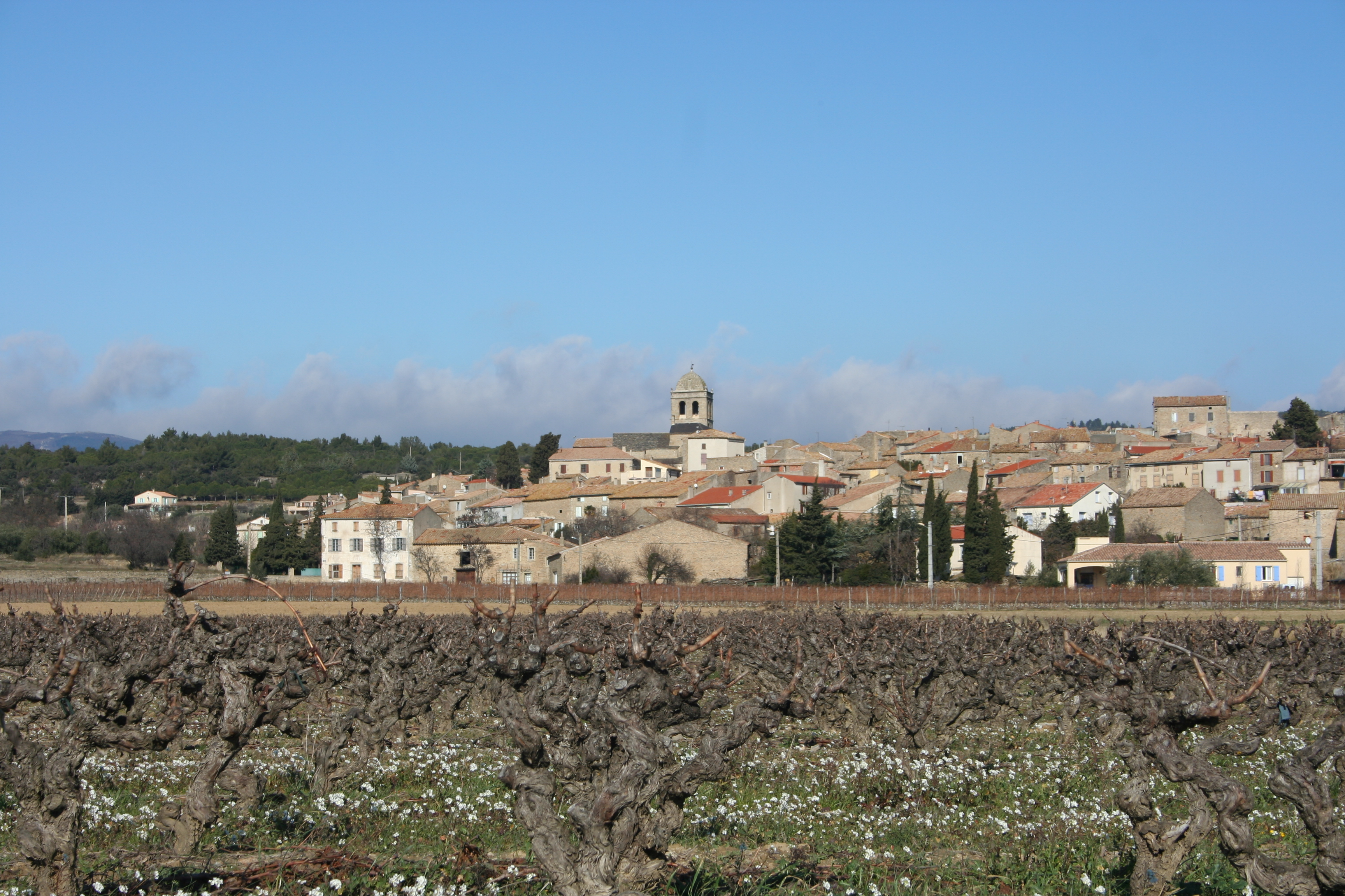 From author:Cru Minervois town of La Liviniere in the winter. The French wine region of Minervois in the Languedoc.